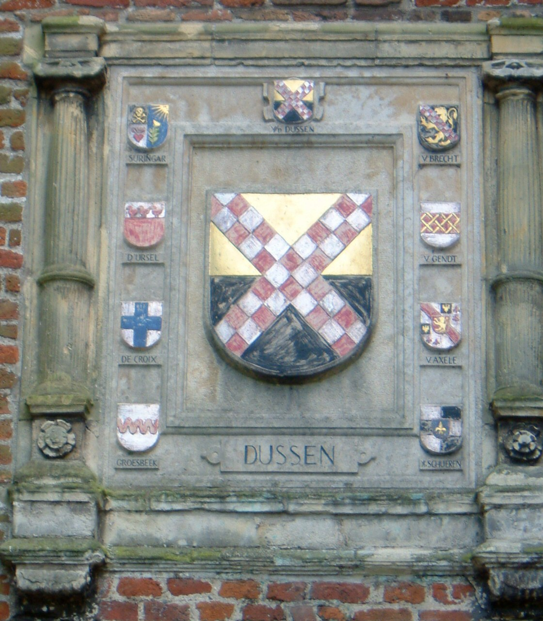 Kasteel Dussen, heraldic symbols above the gate.